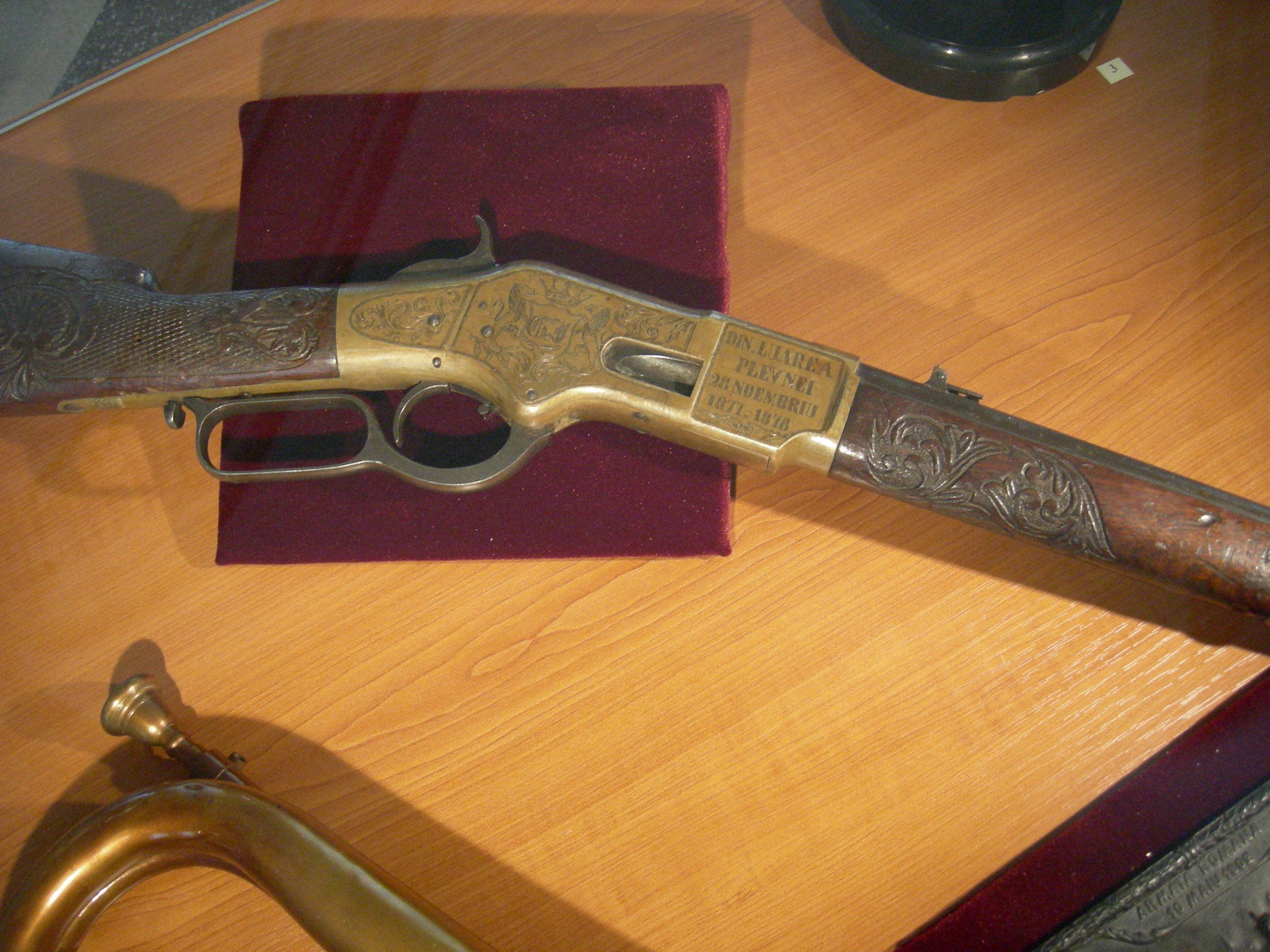 Winchester rifle captured at the Siege of Pleven. Part of a temporary exhibit on Carol I of Romania, at National Museum of Romanian History, Bucharest.